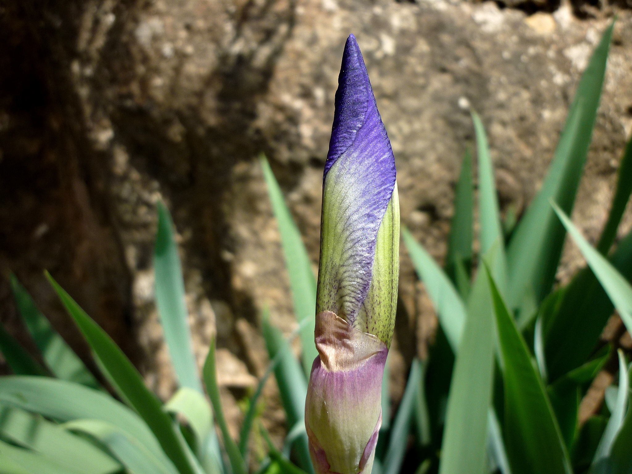 Iris germanica. In Torà (Segarra-Catalunya). To 585 m. altitude